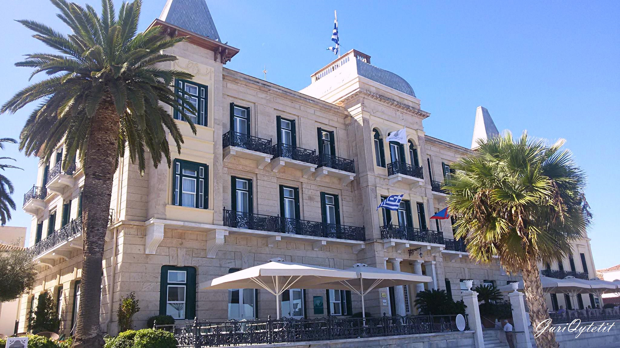 Spetses, Greece